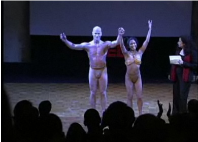 Symbiosis by Pilobolus at TED conference